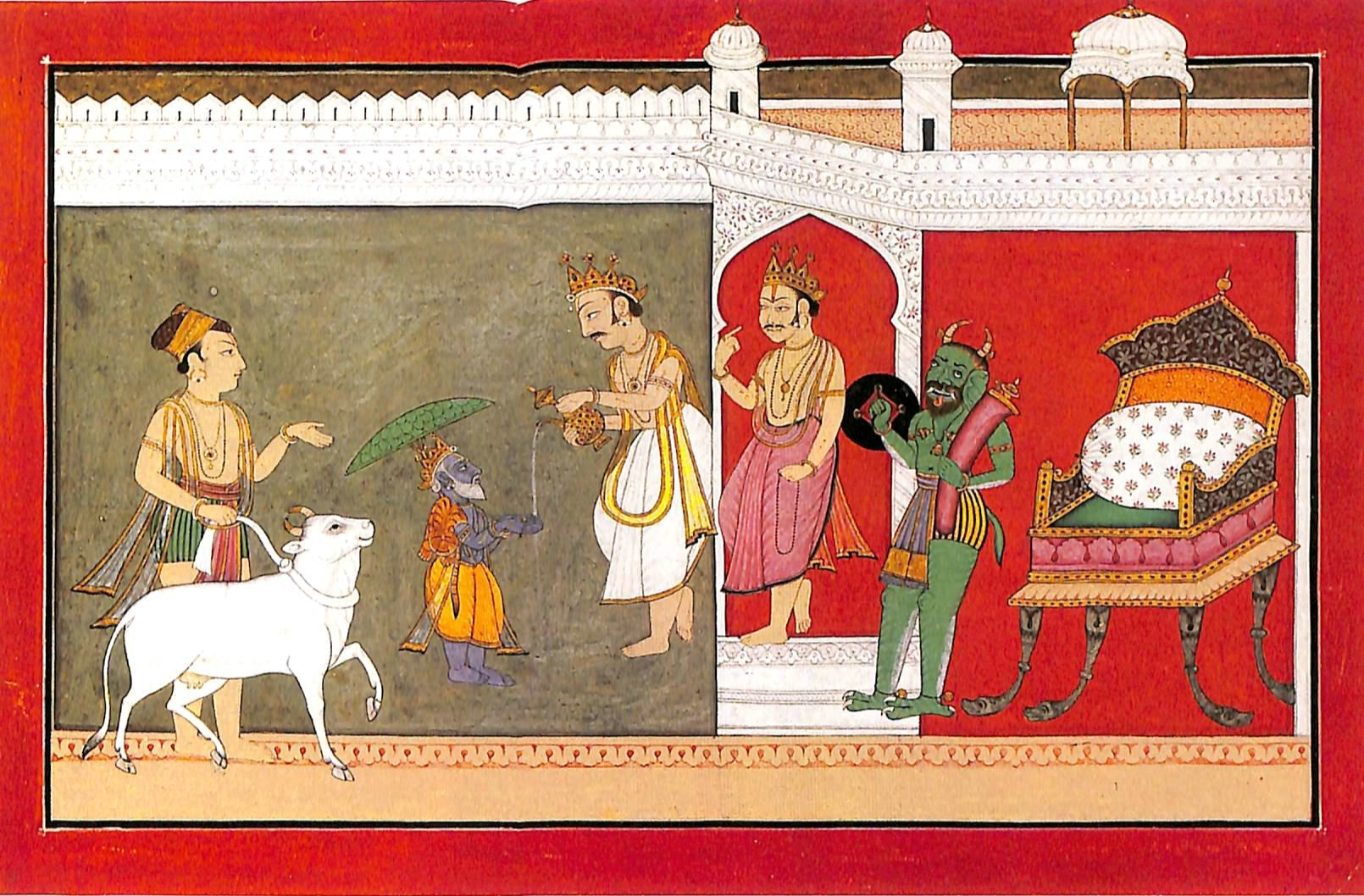 Vamana, the Dwarf-Incarnation of Vishnu; Ascribed to Mahesh of Chamba